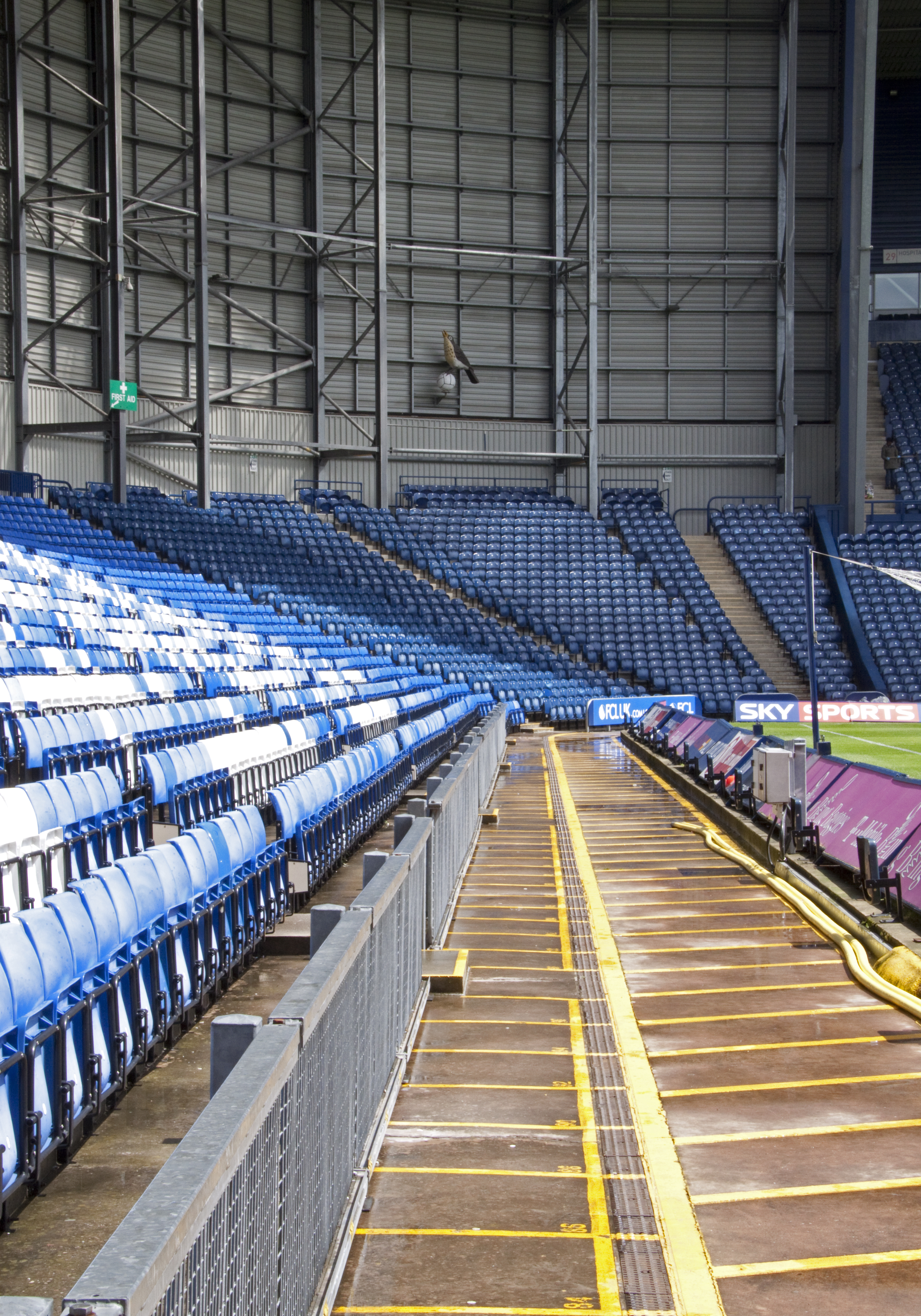 The throstle symbol is visible in the back corner